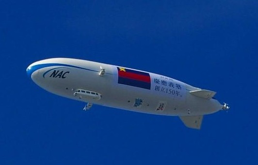 Nippon Airship Corporation Zeppelin NT used for sight seeing trips